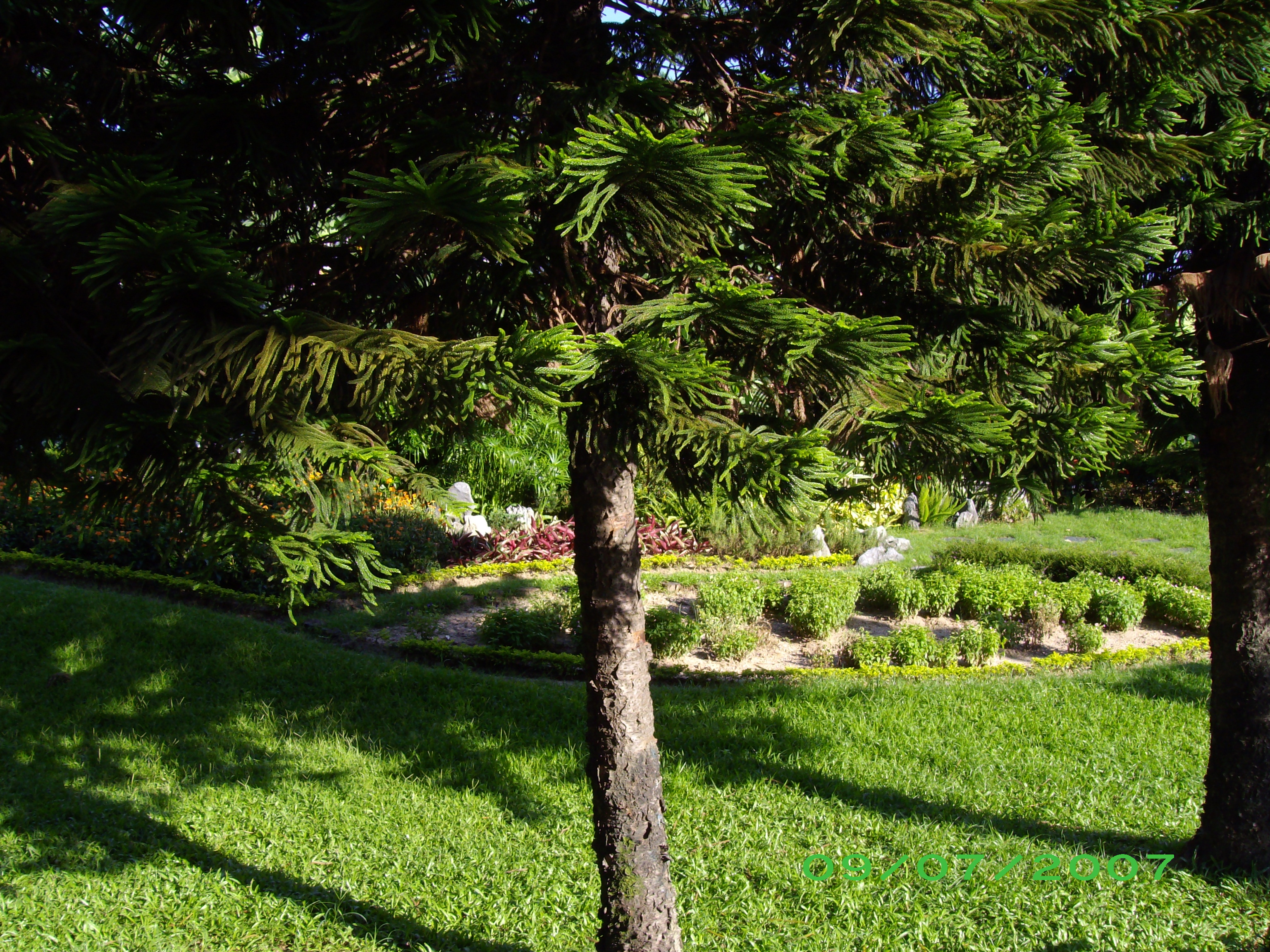 This photo is taken by User:Itsmine, with camera model :PENTAX Optio E30, and double licensed as cc-by-sa-3.0/2.5/2.0/1.0 or GFDL.